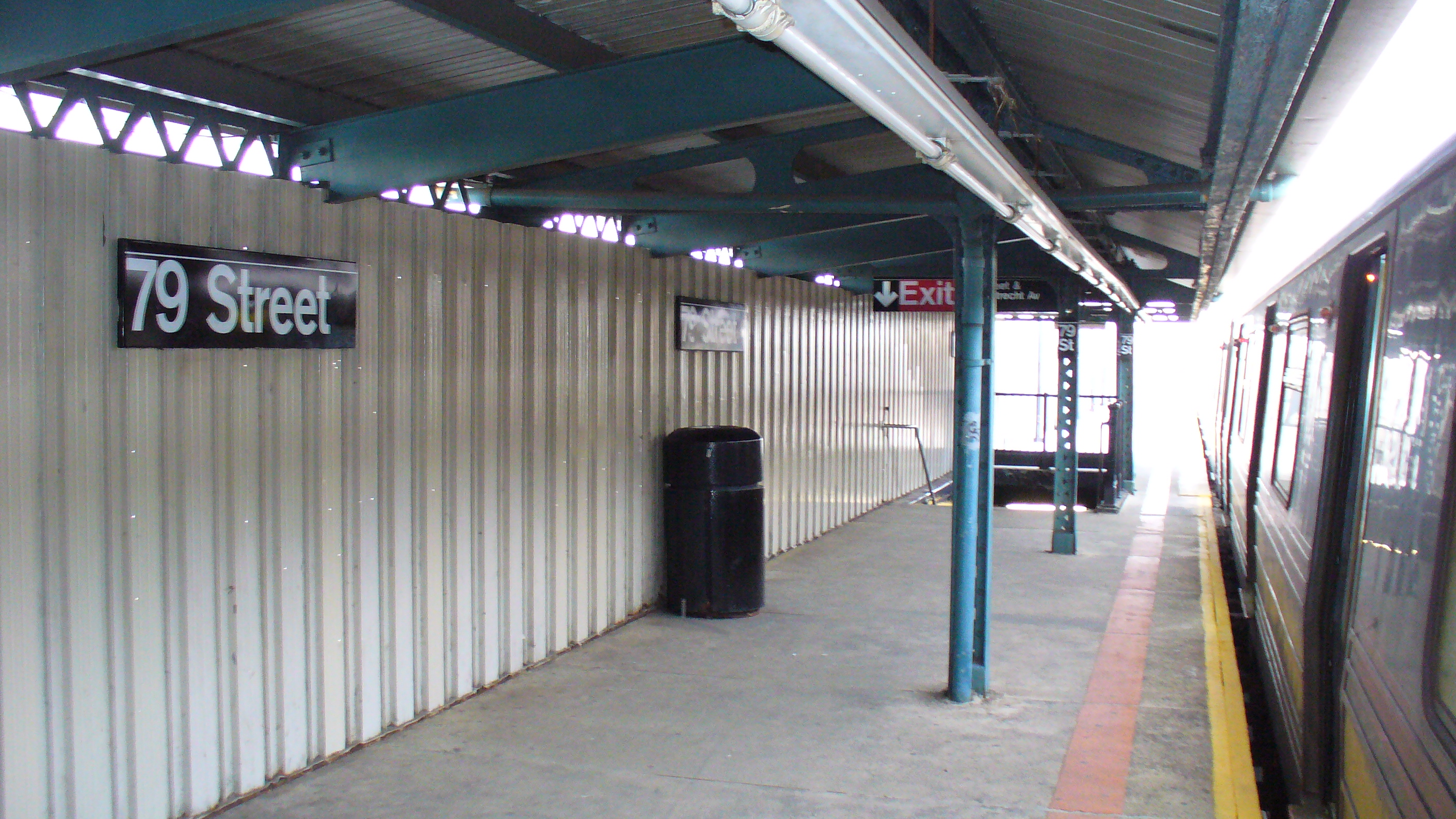 79th Street D Line NYC Subway Station by David Shankbone